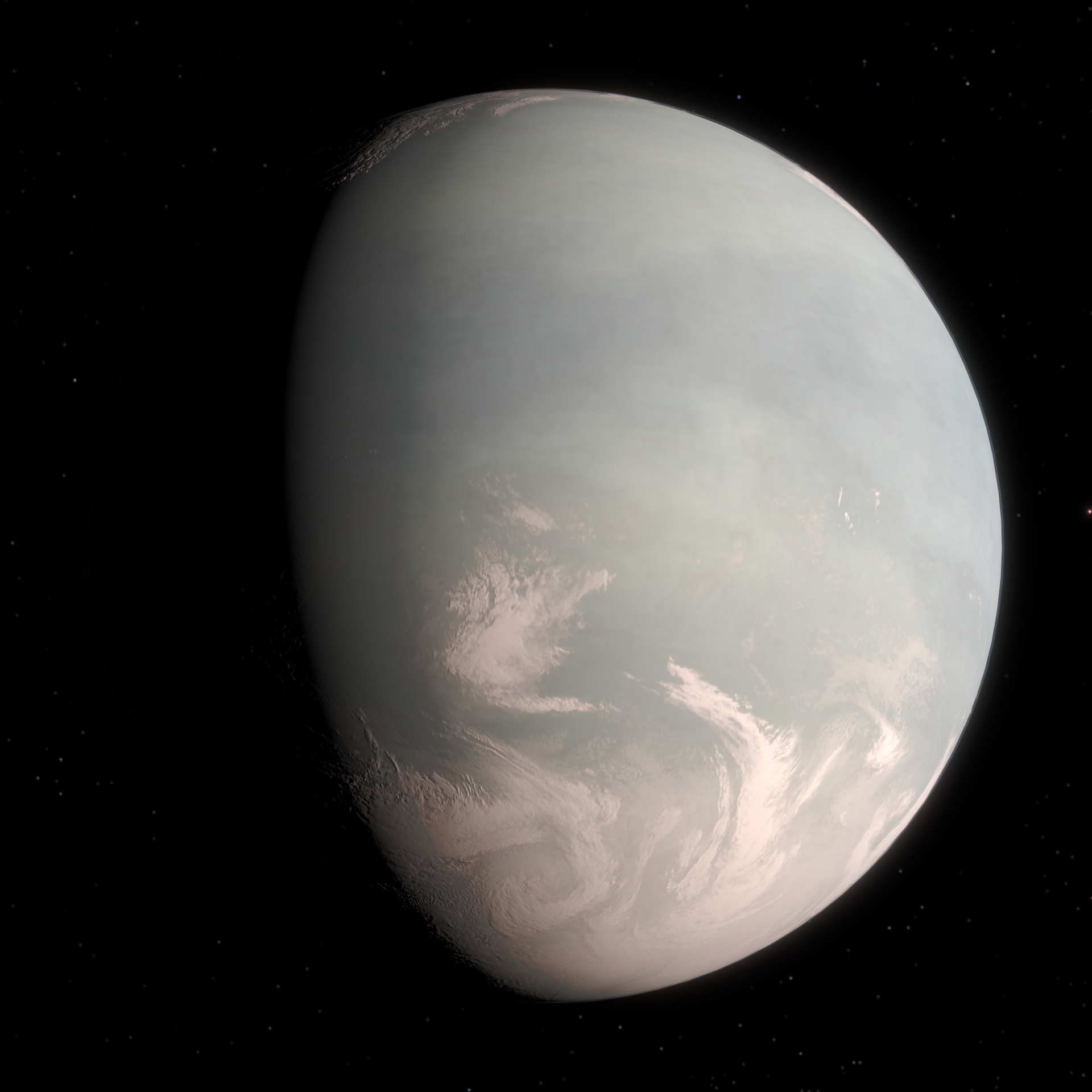 This is a rendering of the exoplanet GJ 832 c, made using the 3D software Blender 2.71. This deception shows GJ 832 c as a cloud-girdled greenhouse planet, with a dense atmosphere of water vapor and thick clouds obscuring the surface.